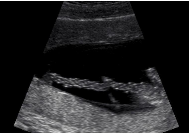 ultrasound umbilical cord